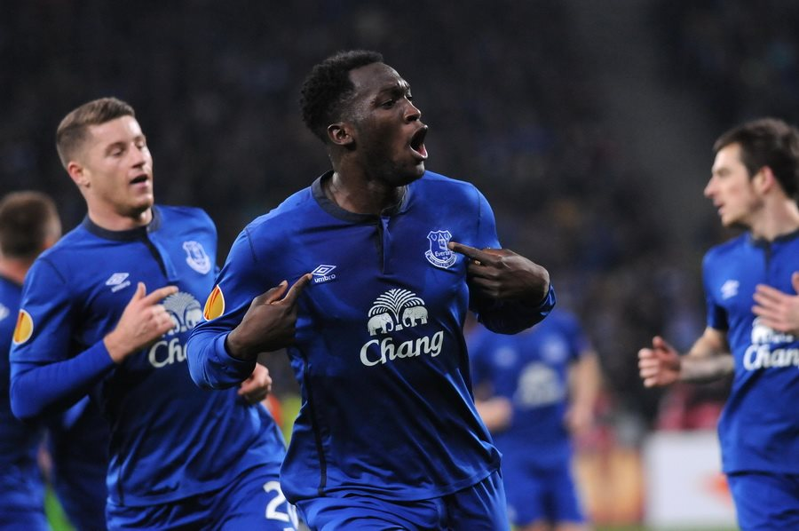 Romelu Lukaku playing for Everton in Europa League match against Dynamo Kiev on 19 March 2015.